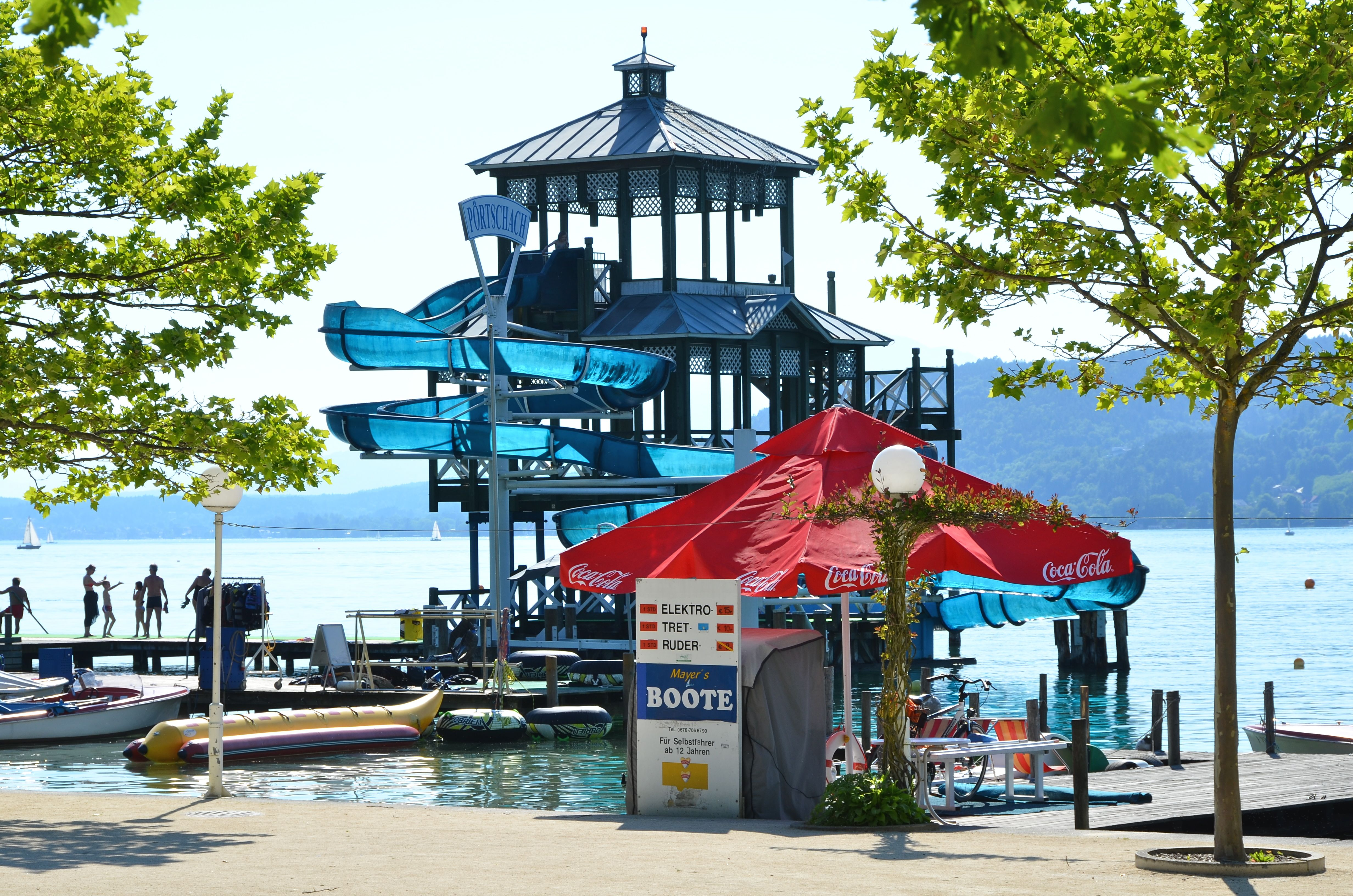 Boat rental with water slide tower at the lido on the Johannes-Brahms-Promenade, municipality Pörtschach am Wörther See, district Klagenfurt Land, Carinthia, Austria, EU